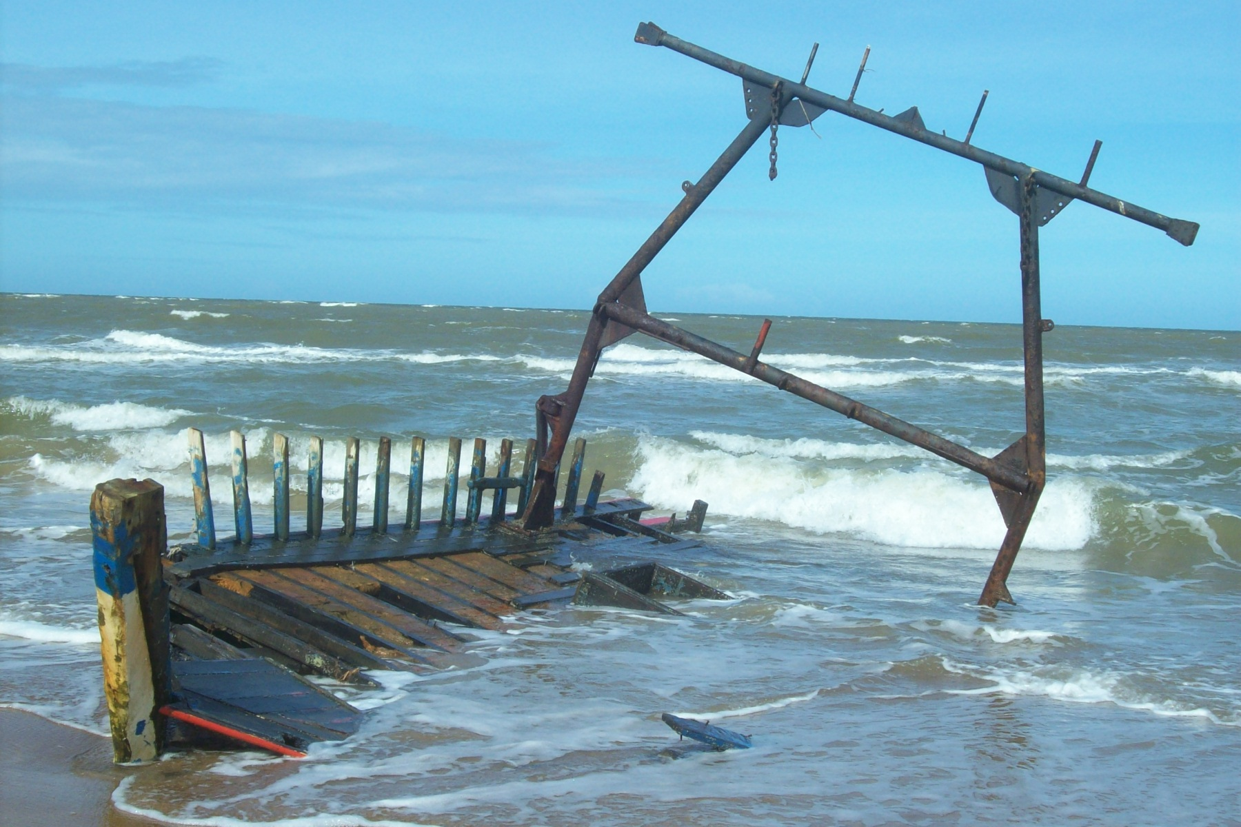 Pontal do Sul.jpg